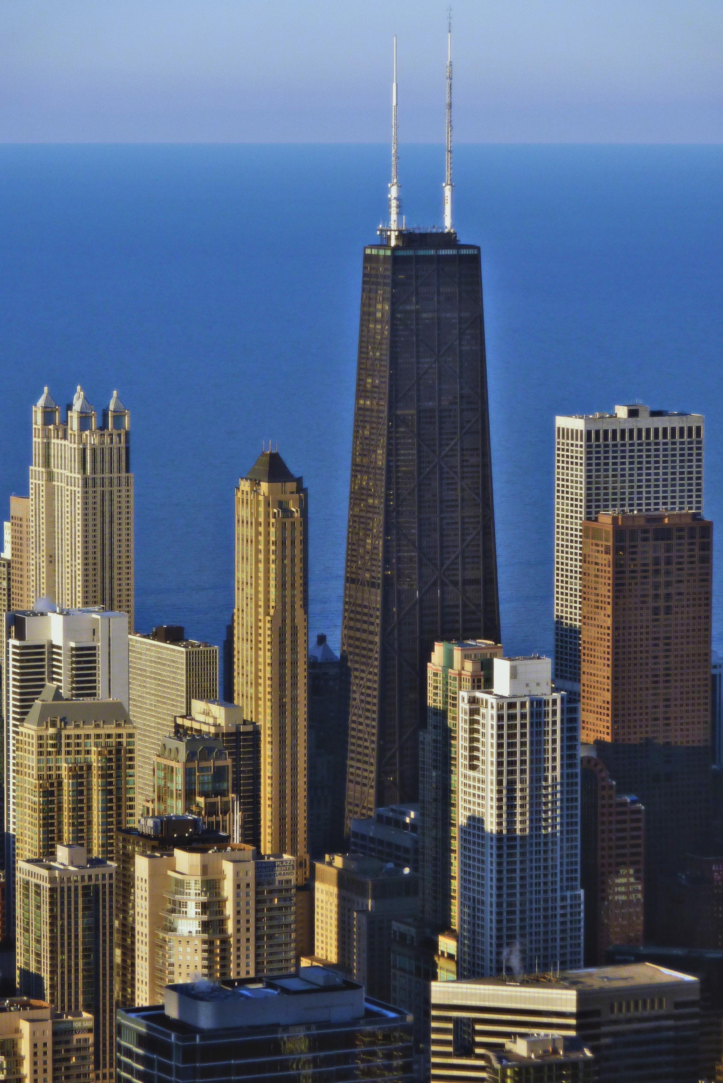 John Hancock Tower as seen from Willis Tower in Chicago, IL, USA.